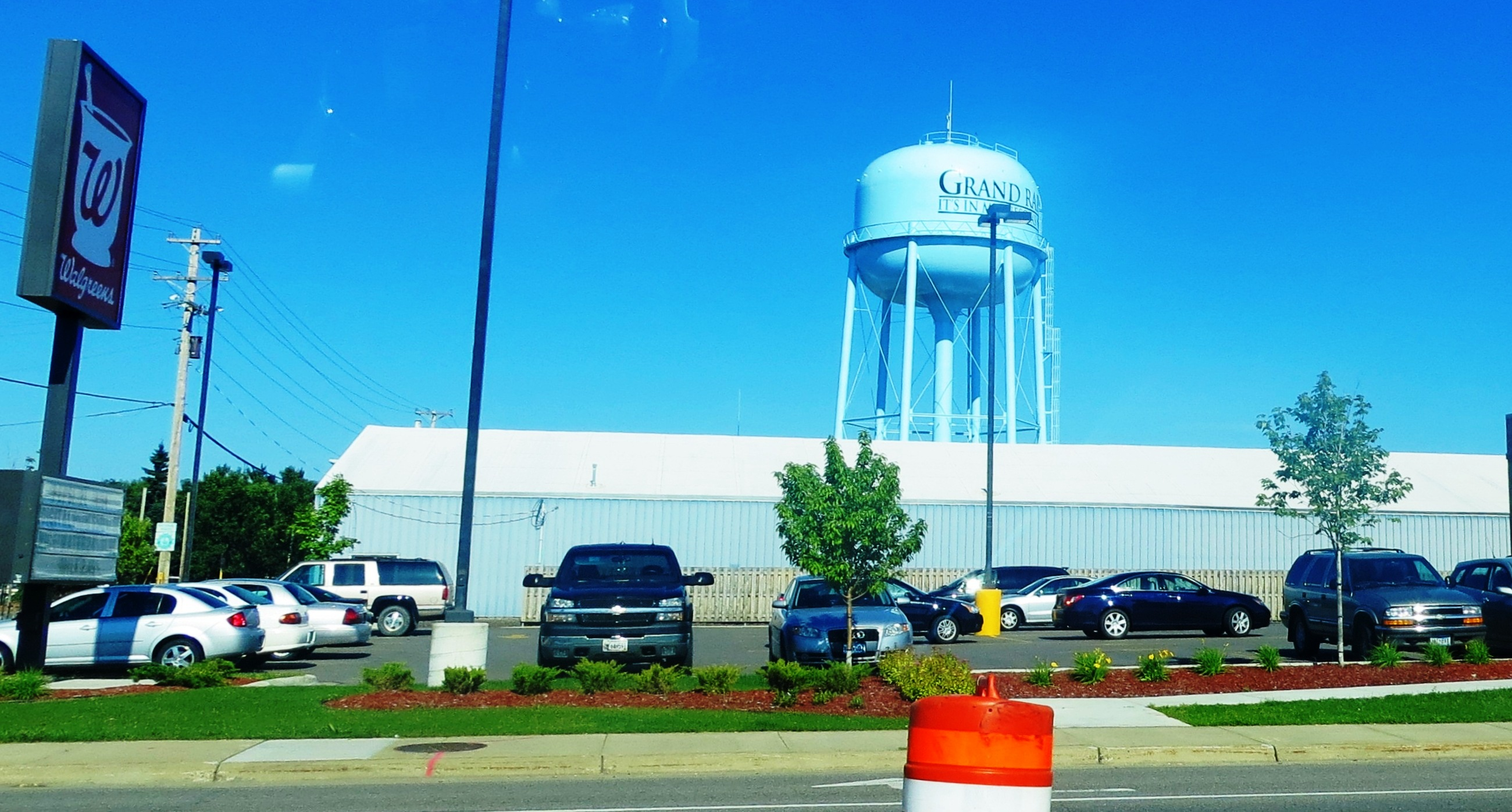 Grand Rapids is a small city in Itasca County, Minnesota, USA